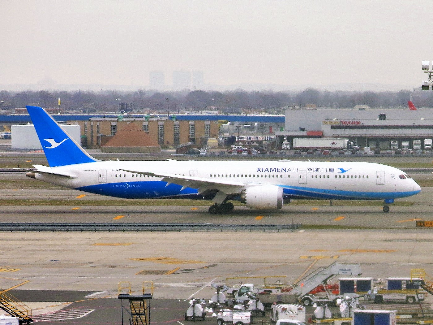 A XiamenAir Boeing 787-9 Dreamliner having just arrived from Fuzhou, Fujan, China, is taxiing along Taxiway A past Terminal 5 at JFK Airport.